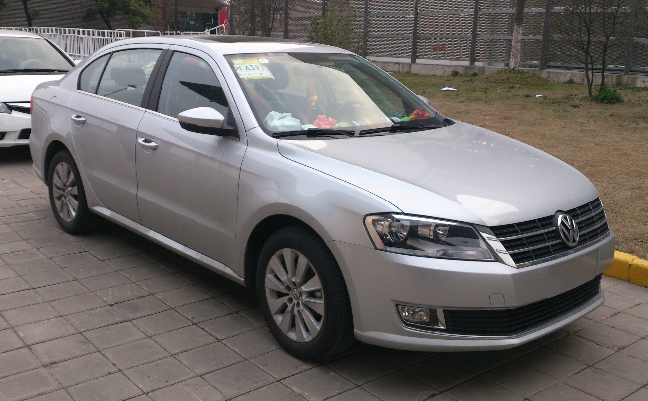 Volkswagen Lavida II photographed in Shanghai, China.